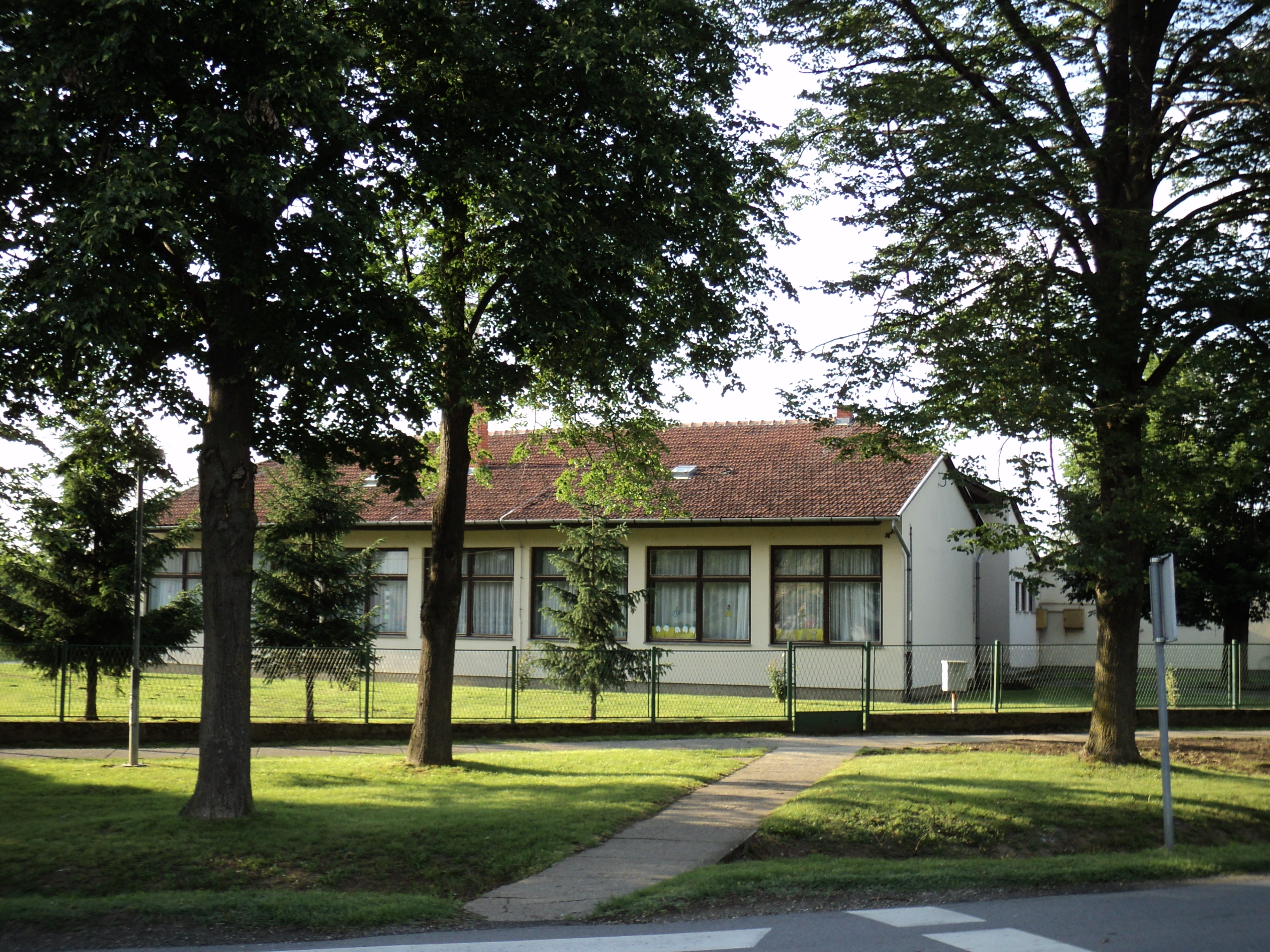 Elementary school in Marijanci.